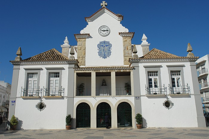 Capela Senhor dos Aflitos (chapel) at the back side of Nossa Senhora do Rosário (Church in Olhão, Algarve, Portugal).